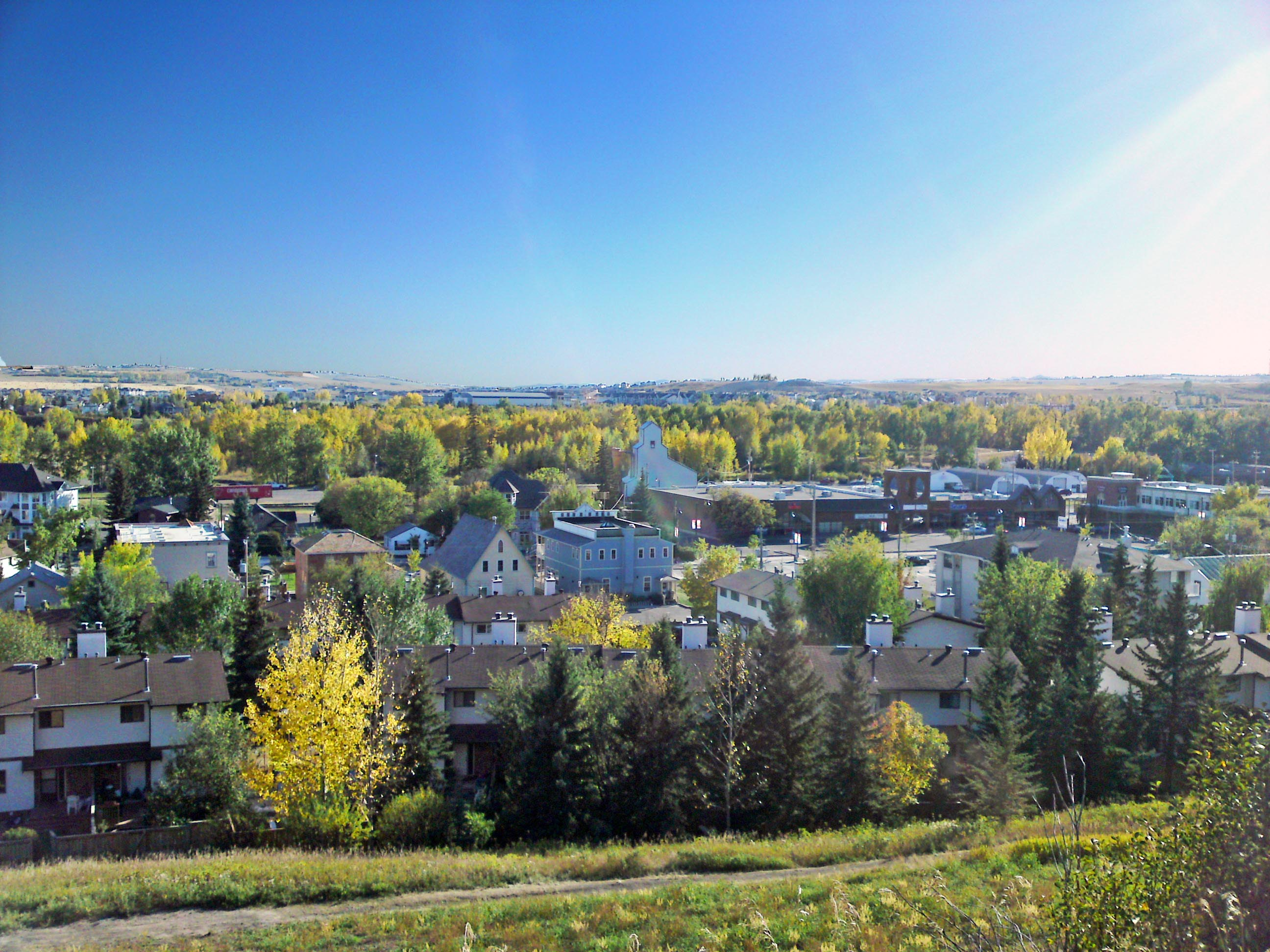 Okotoks in the fall of 2009